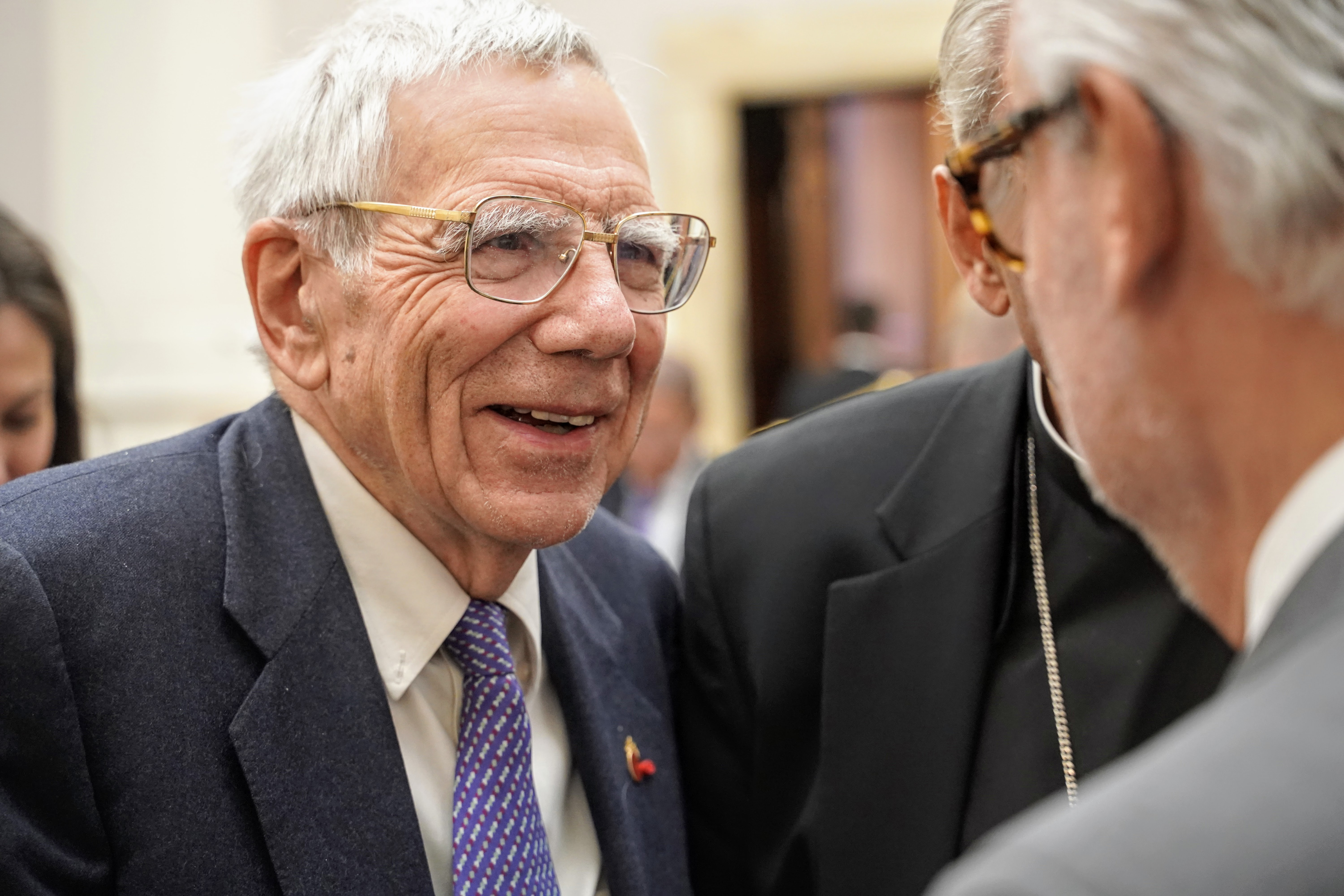 Portrait of Pierre Léna at the Pontifical Academy of Social Sciences, 6 February 2020